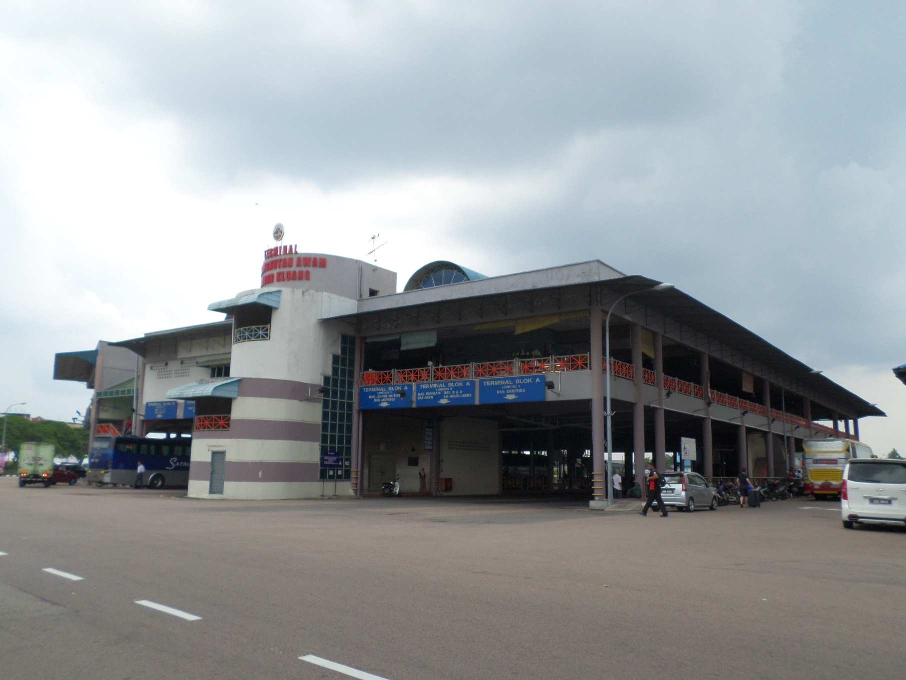 Kluang Town Public Transportation Terminal, Kluang, Johor, Malaysia